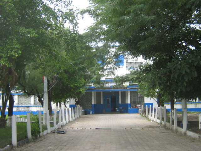 This is the Official School Federation Urbana type "Carrillo Ramirez Solomon" which is located in the municipality of Jutiapa. There are many schools like this in all departments of Guatemala, and Jutiapa, only exist in the header and the municipality of Moyuta.